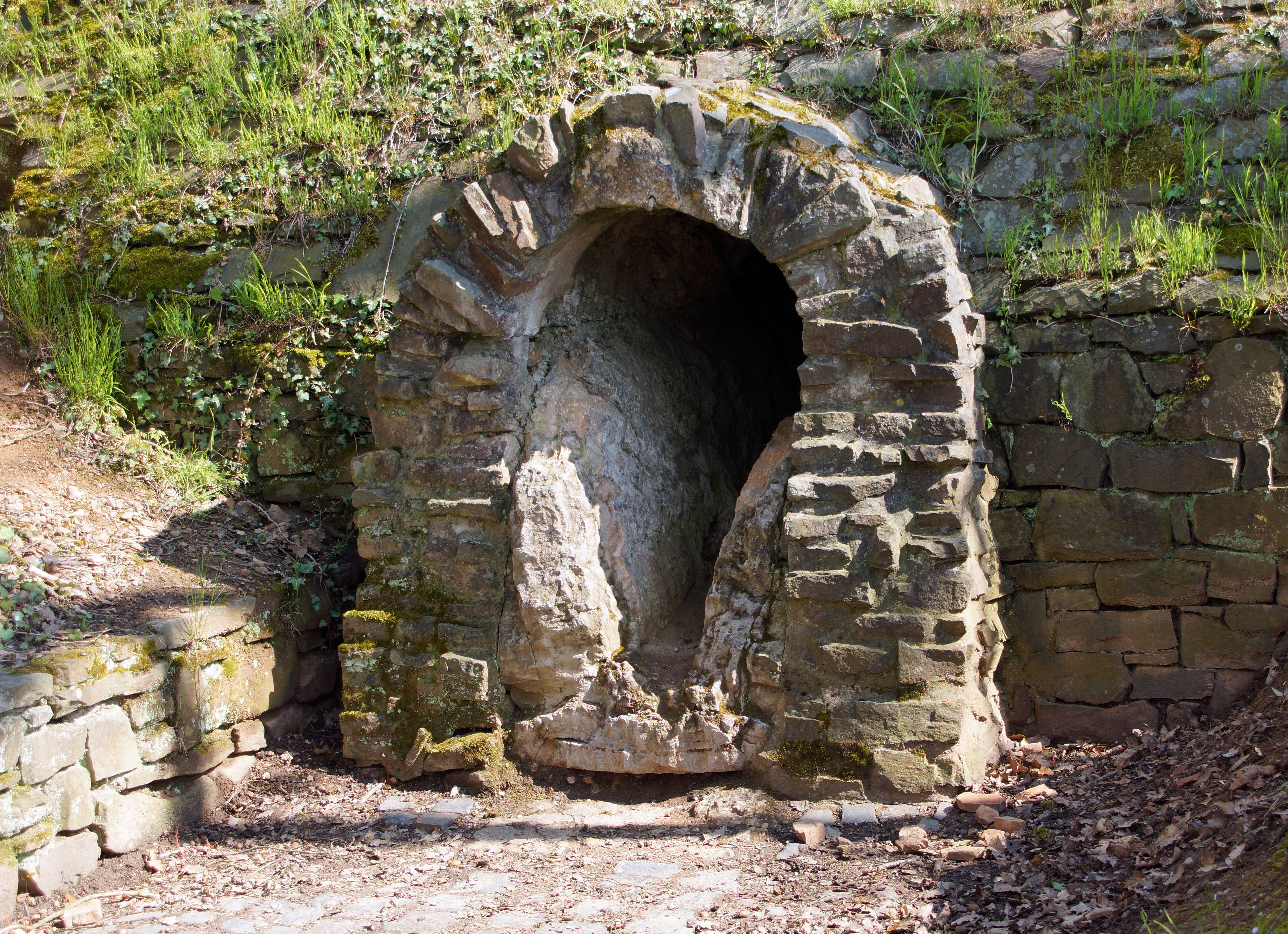 Roman aqueduct in Kreuzweingarten: opening of the aqueduct at the street Am Römerkanal